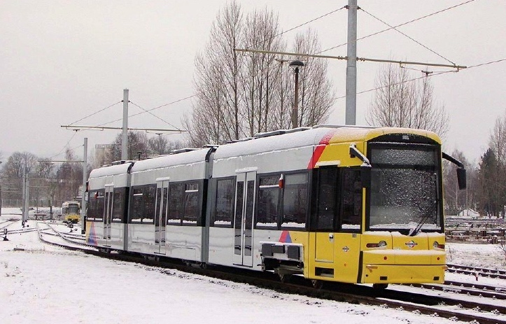 A Flexity Classic tram, part of an order of nine by the South Australian Government from Bombardier Transportation, is on the Bombardier factory sidings at Bautzen, Germany, in the winter of 2004–05